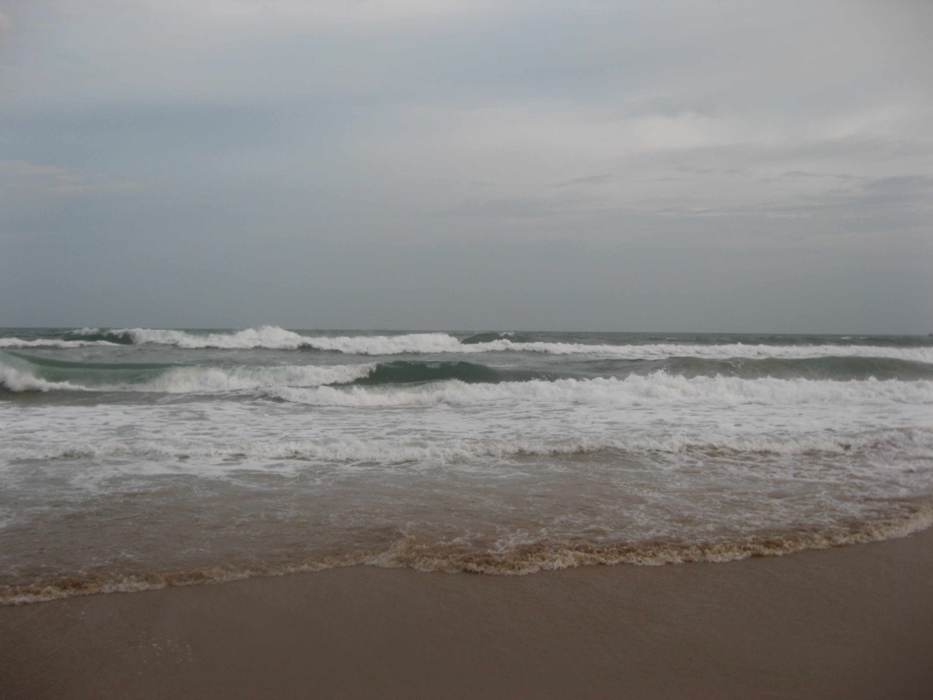 The Ramakrishna Mission Beach after Sunset, Visakhapatnam.